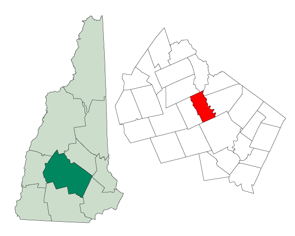 Map of a municipality in Merrimack County, New Hampshire